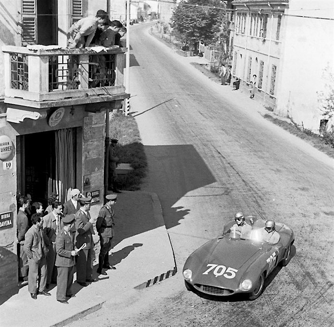 Umberto Maglioli and Luciano Monteferrario at Mille Miglia on 1 April 1955 in entry #705, the 1955 Ferrari 376 S (later 121 LM) s/n 0532LM, they ended in 3rd place.[1] This was perhaps the first race it raced, this car. [2]